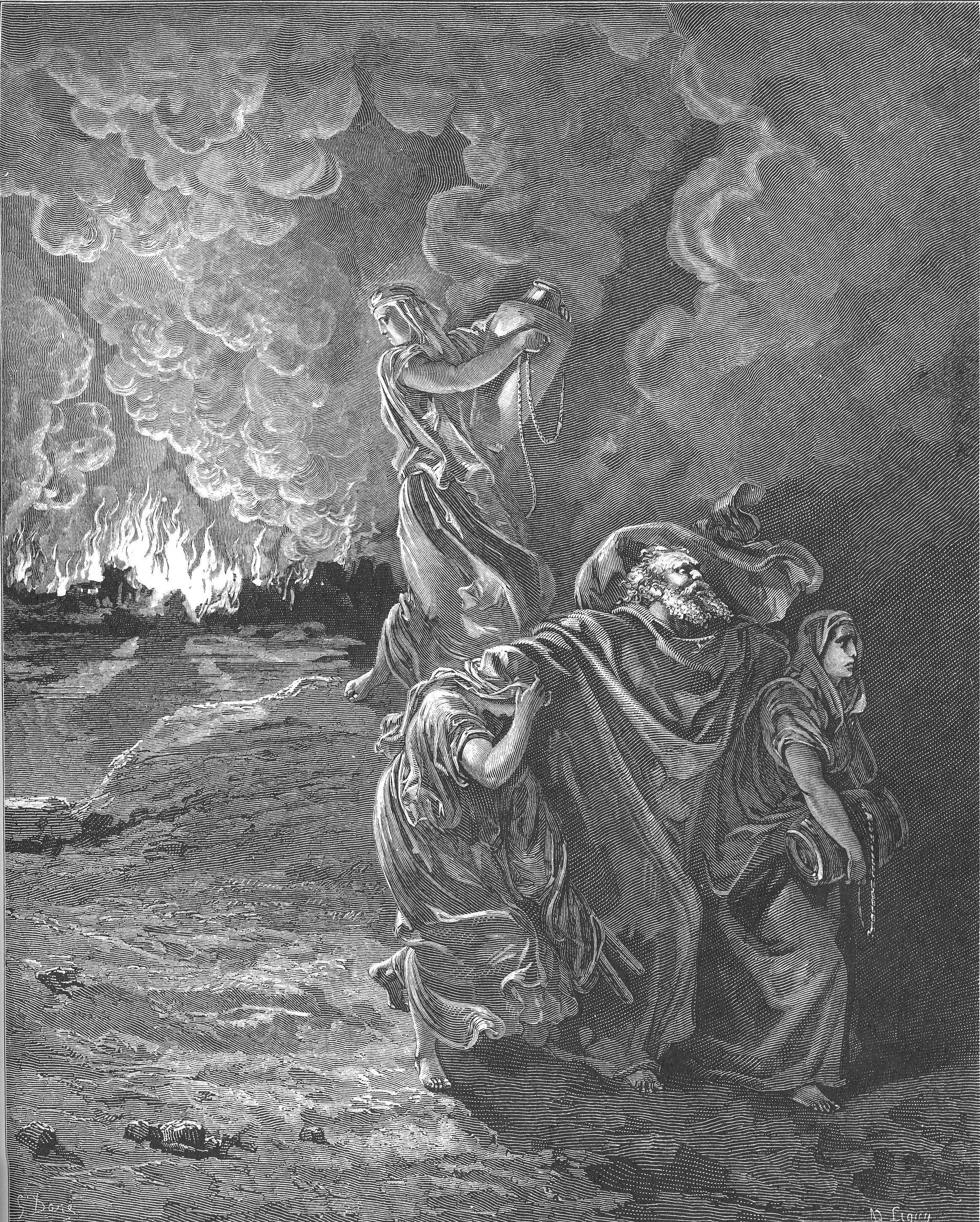 Gustave Doré - Lot Flees as Sodom and Gomorrah Burn (Gen. 19:1-20,24-36), 1875.